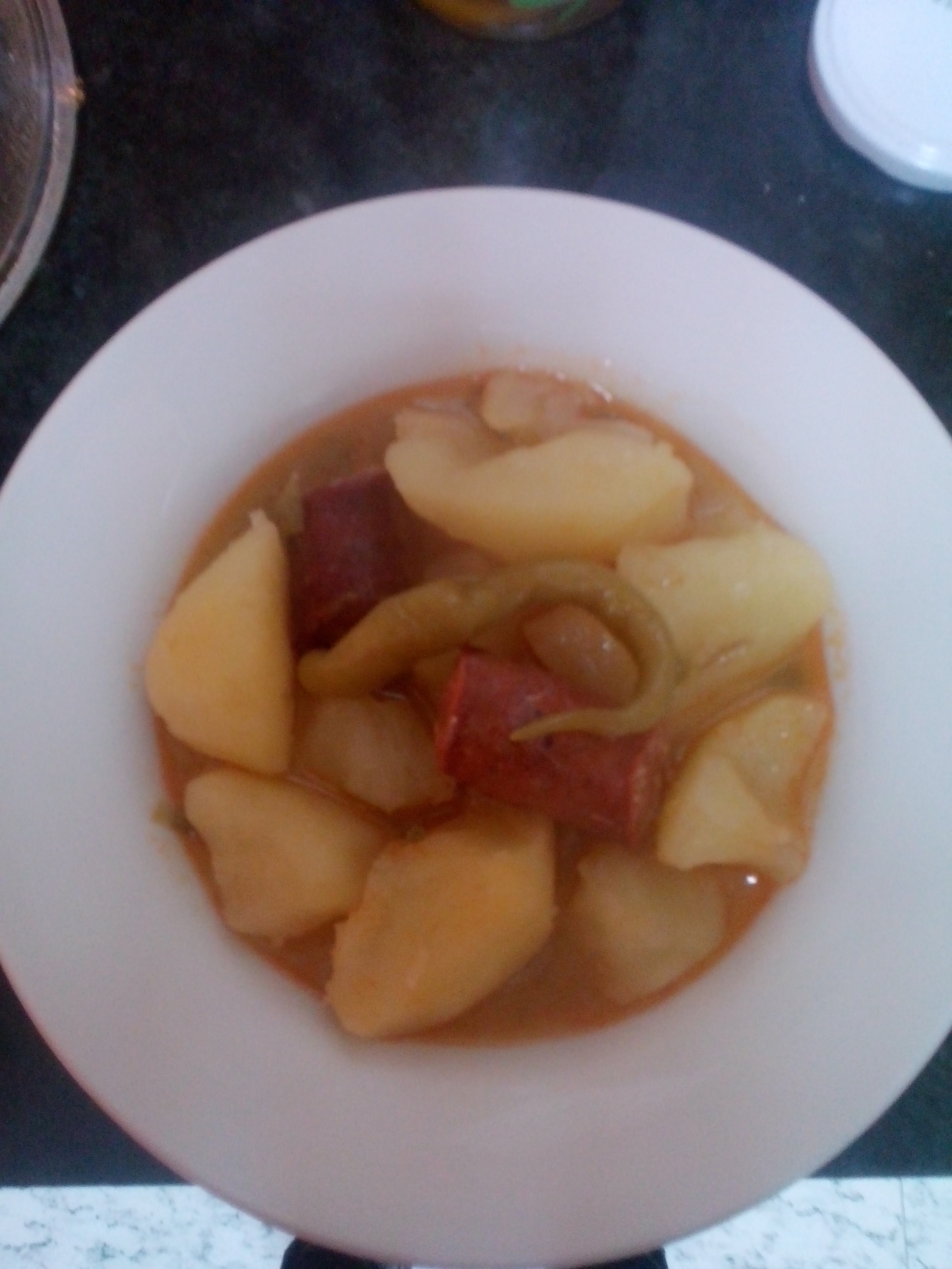 The finished plate of Rioja Style Potatoes